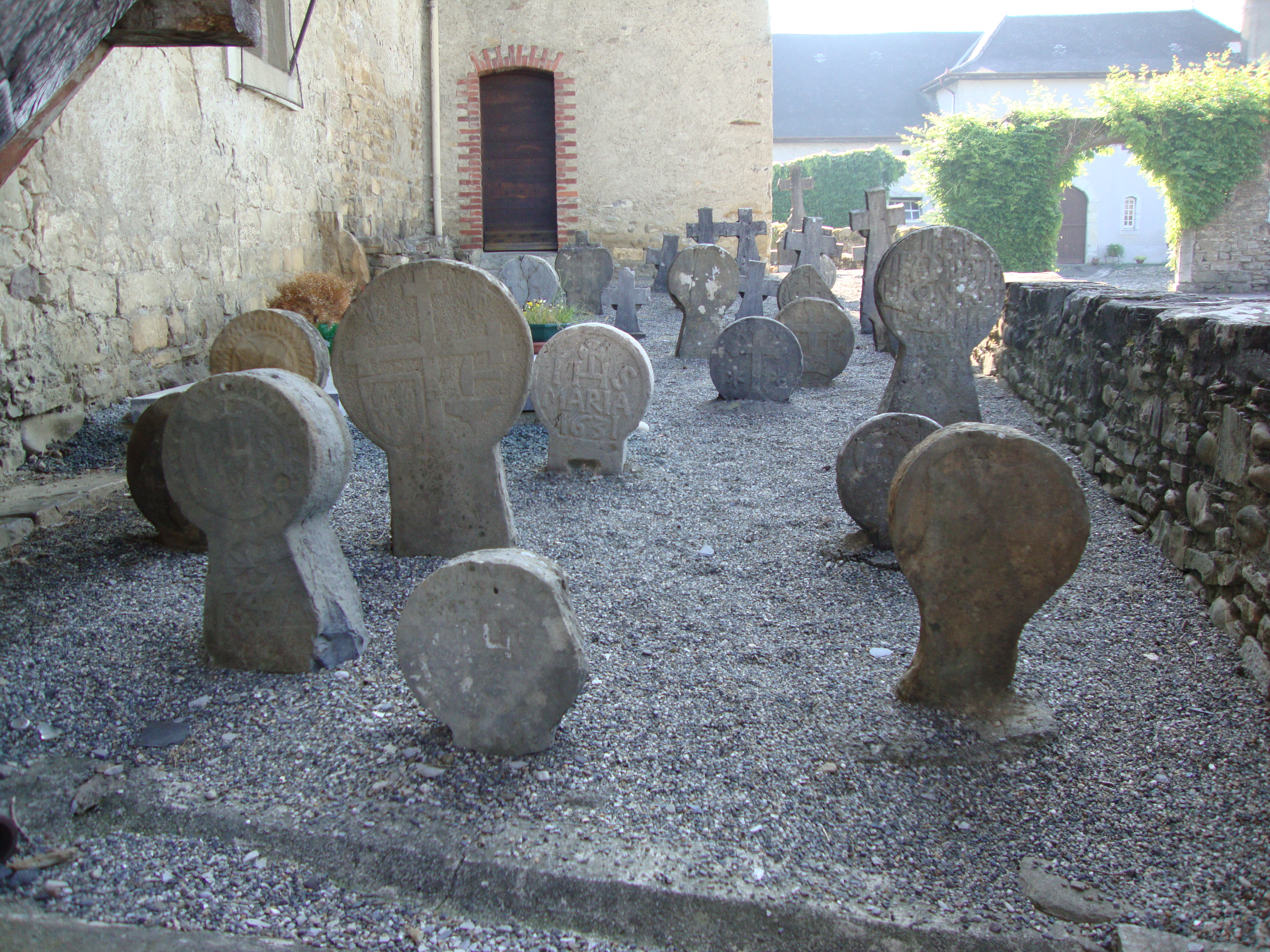 Gotein_(Gotein-Libarrenx, Pyr-Atl, Fr) basque steles in the old churchyard.